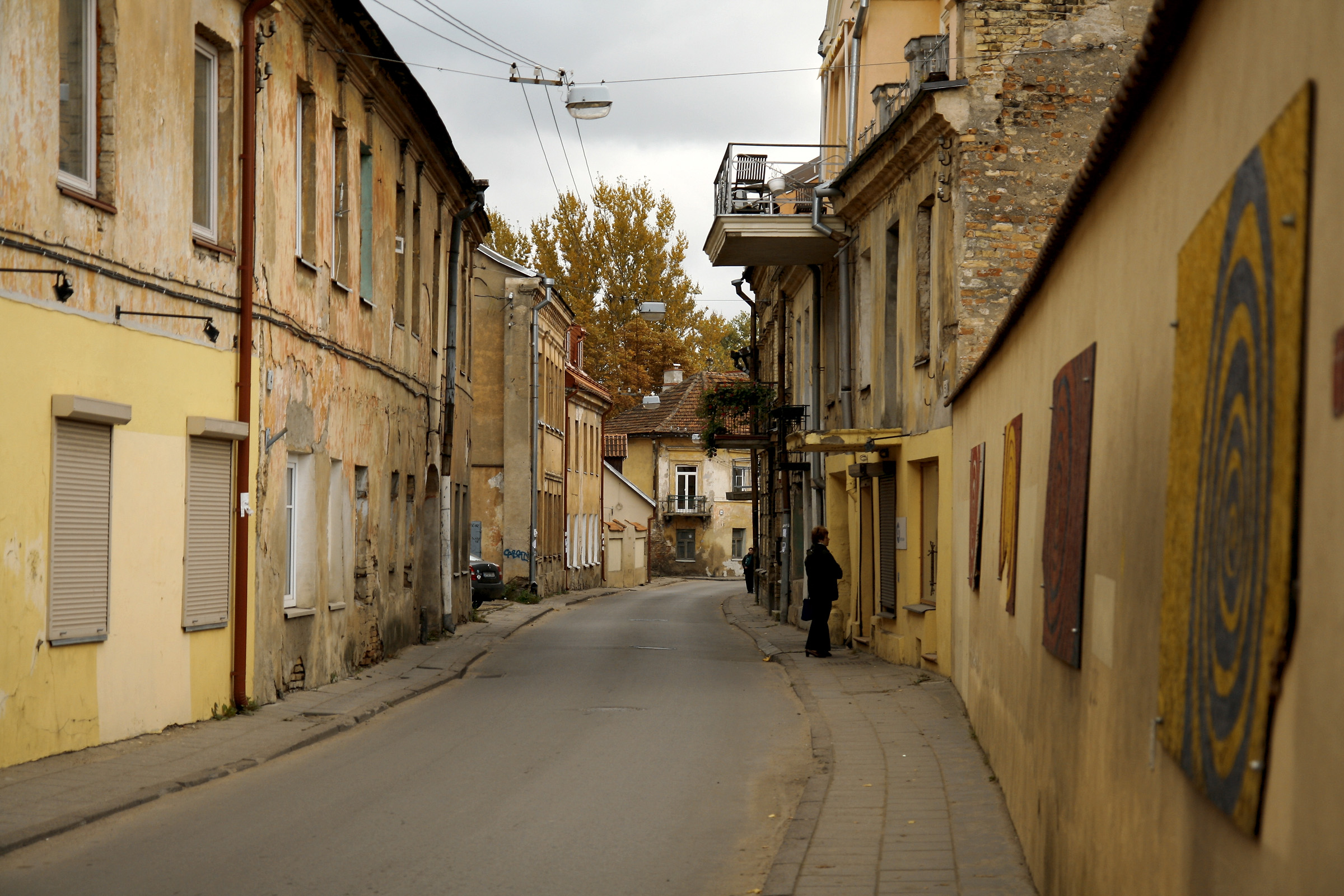 Republic of Zarecca street. Užupis, Paupio g., Vilnius, 2008